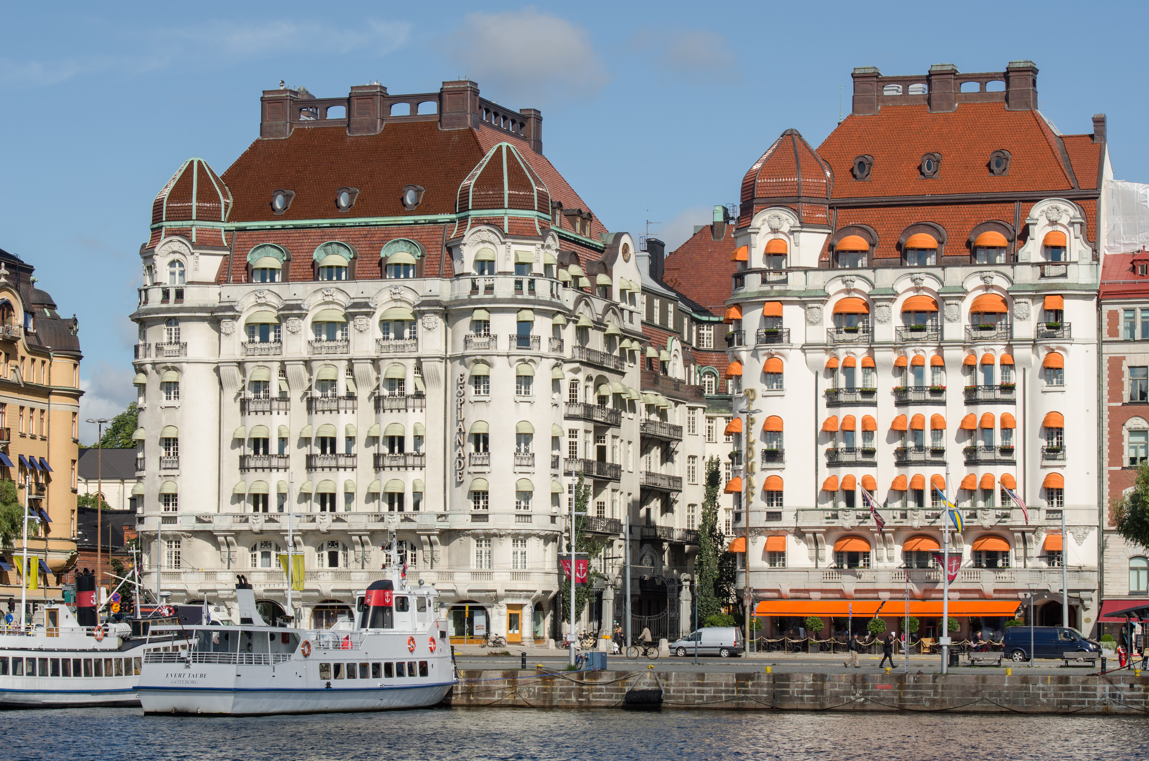 Strandvägen 7 A-B, Östermalm, Stockholm. Built 1907-11. Architects: Hagström & Ekman. Hotels and apartments